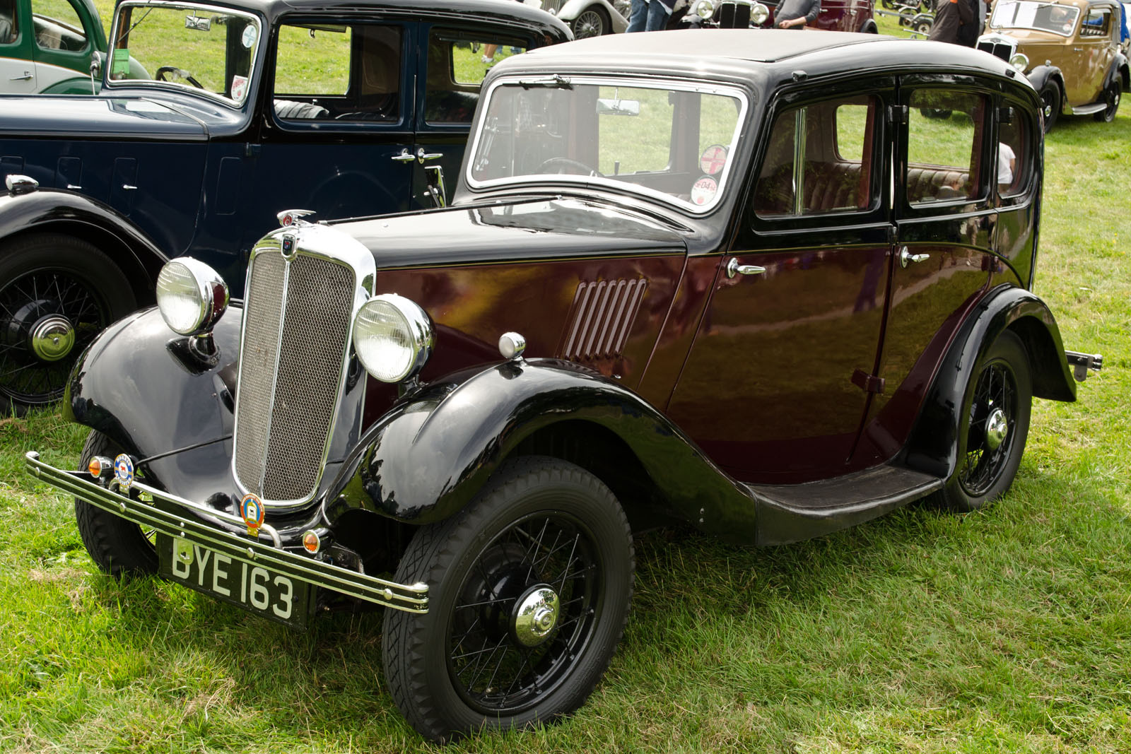 1935 Morris Eight 4-dorr six-light saloon (DVLA) first reg 7 June 1935, 885 cc Cholmondeley Classic Car Show 01/09/2013